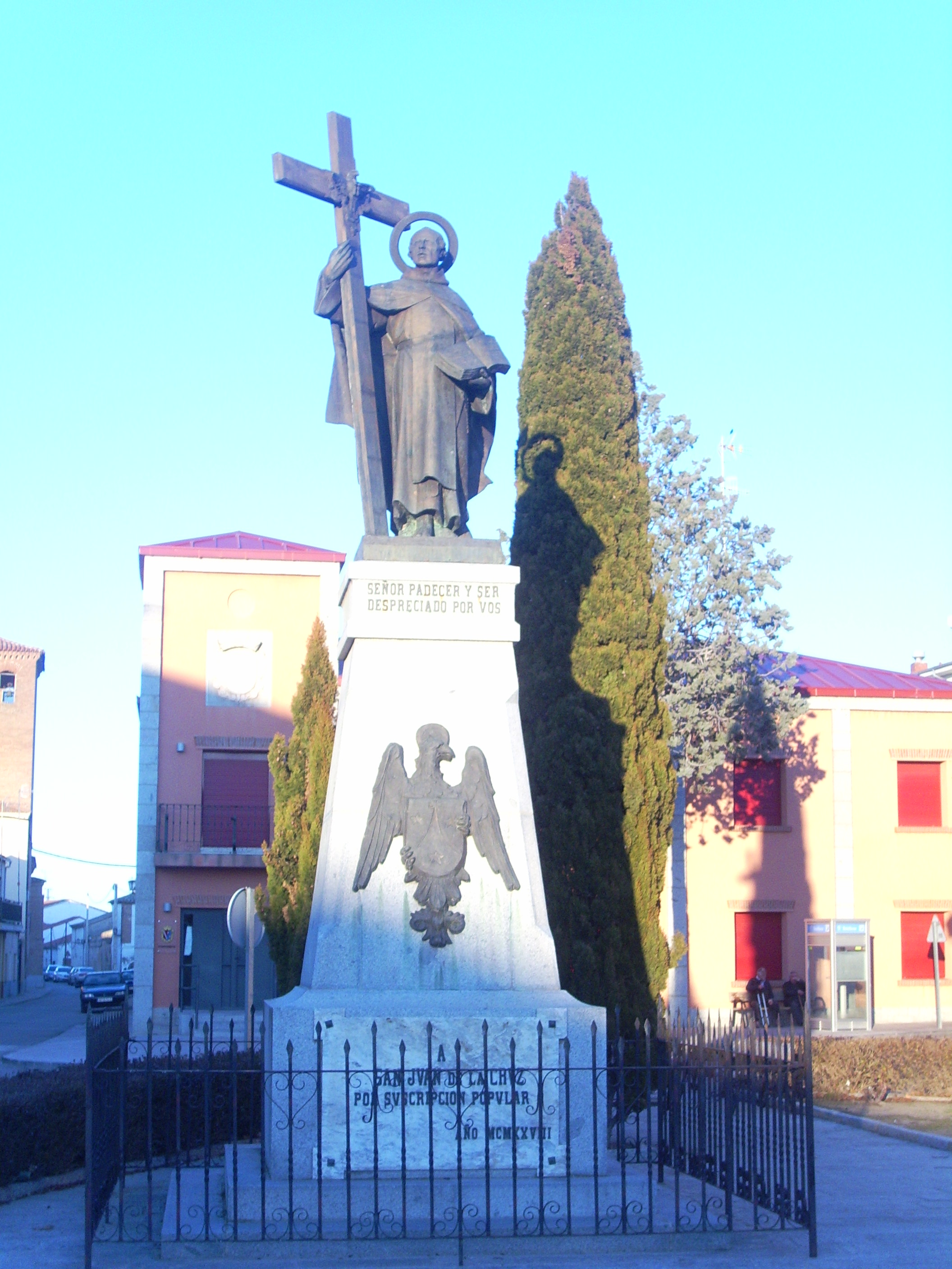 Saint Juan de la Cruz statue